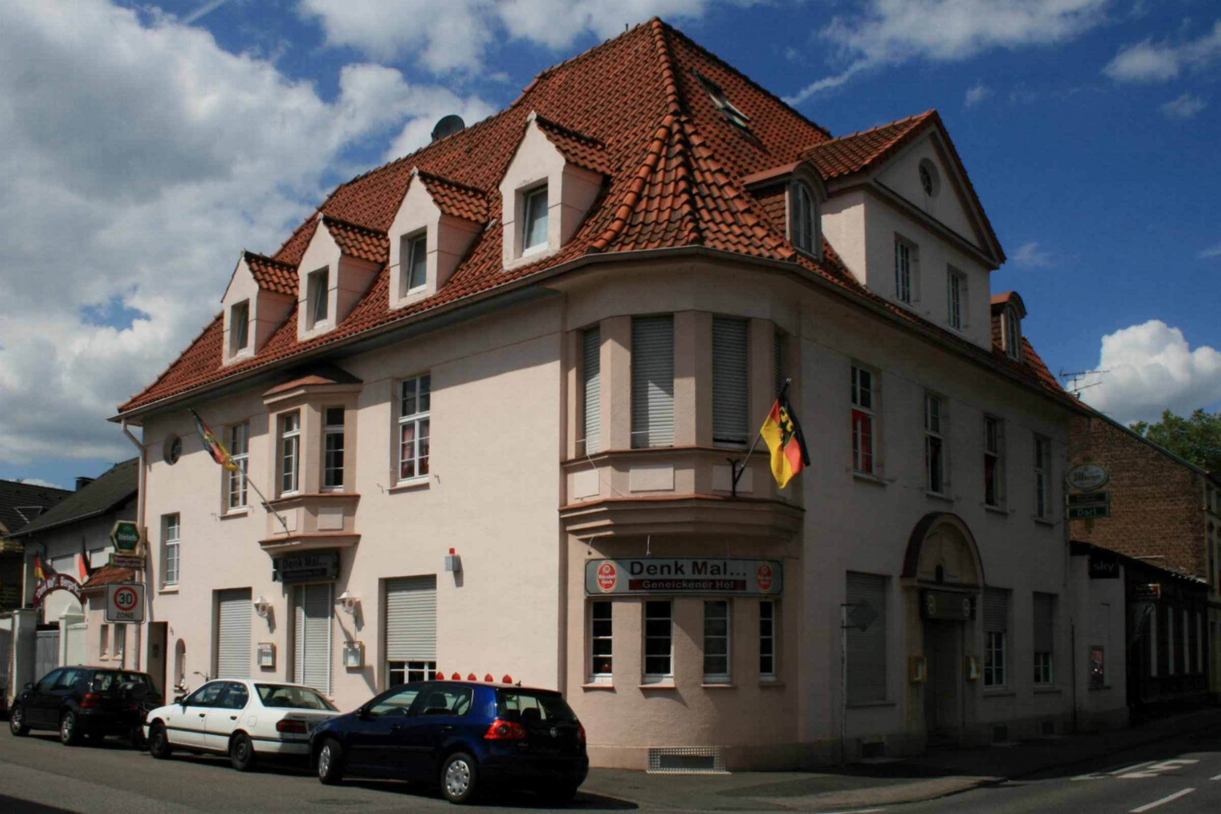 Cultural heritage monument No. G 004 in Mönchengladbach